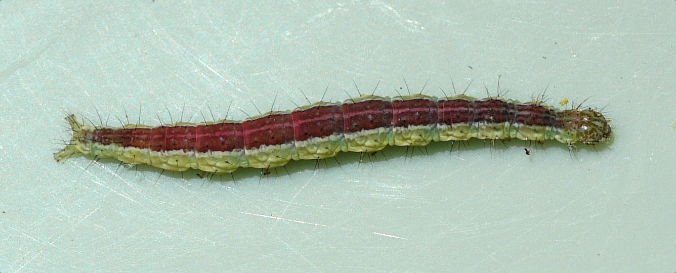 Ypsolopha dentella - Honeysuckle Moth - caterpillar - Cross Plains, WI, USA